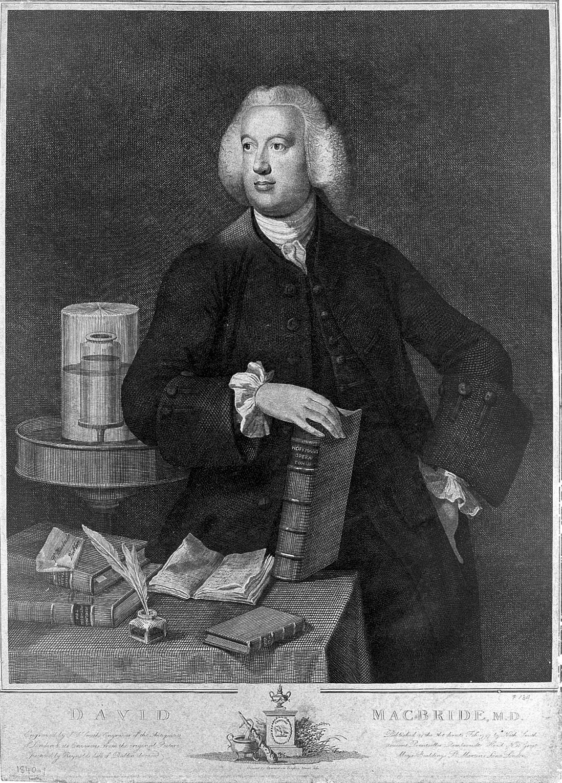 David Macbride. Engraving by J. T. Smith, 1797, after Reynolds. Iconographic Collections Keywords: David Macbride